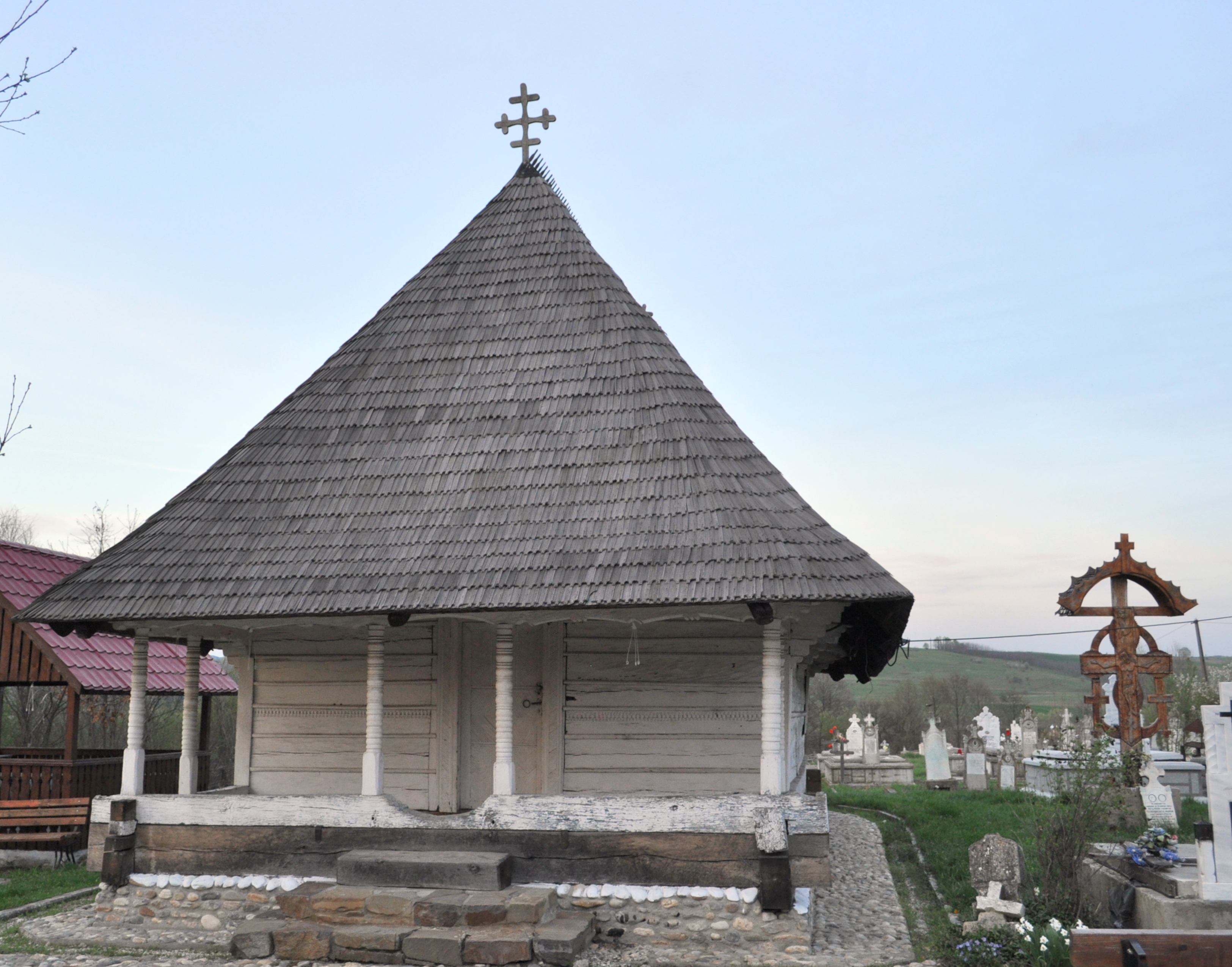 Wooden church in Fărcășești-Broștenița, Gorj county, Romania